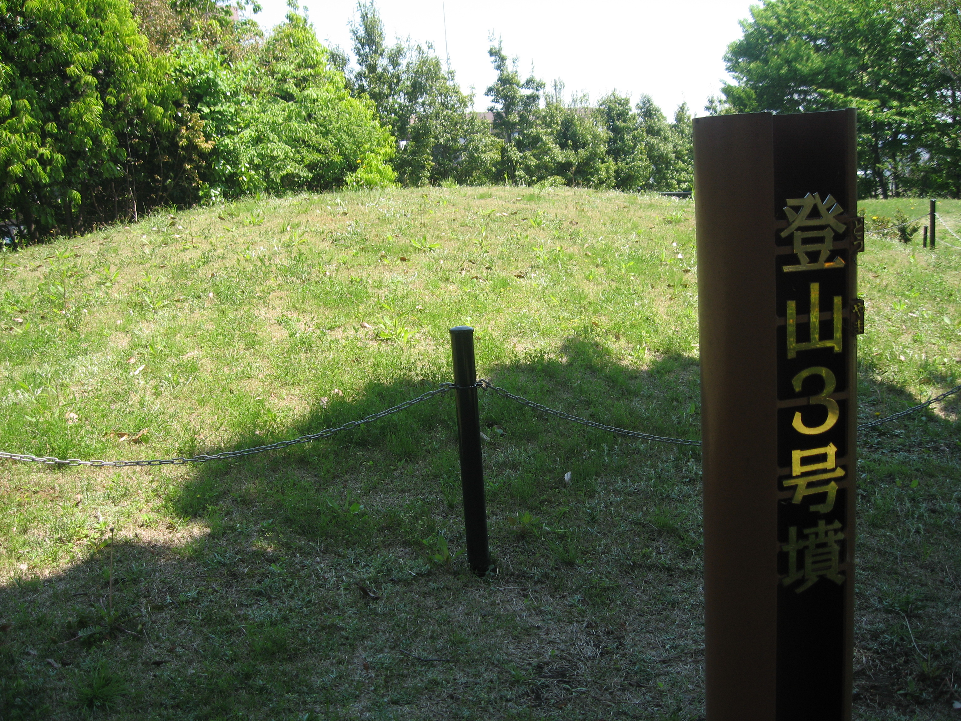 Dohyama Ancient Tomb No.3